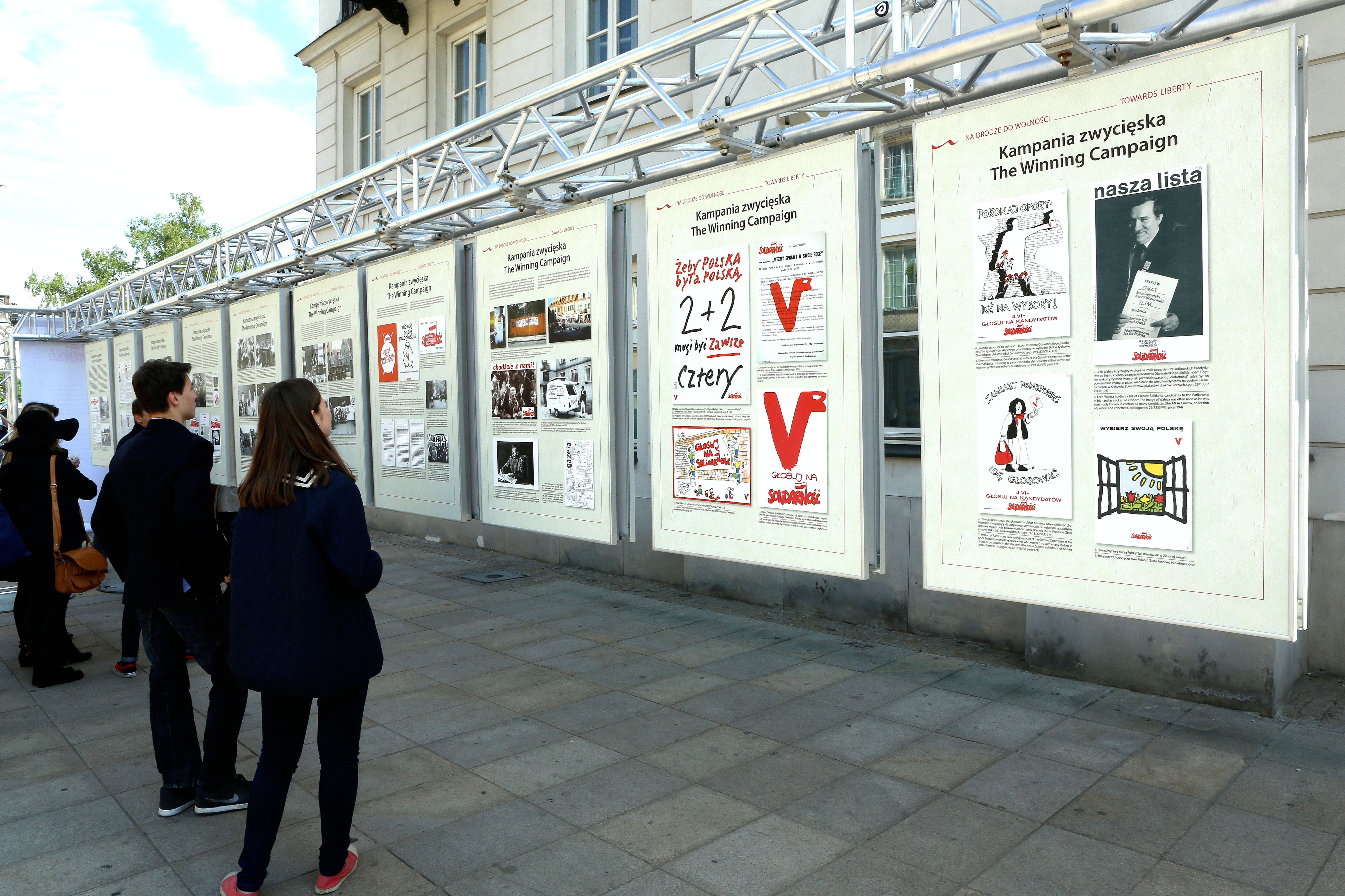 Exhibition "Towards liberty" in front of the Presidential Palace in Warsaw